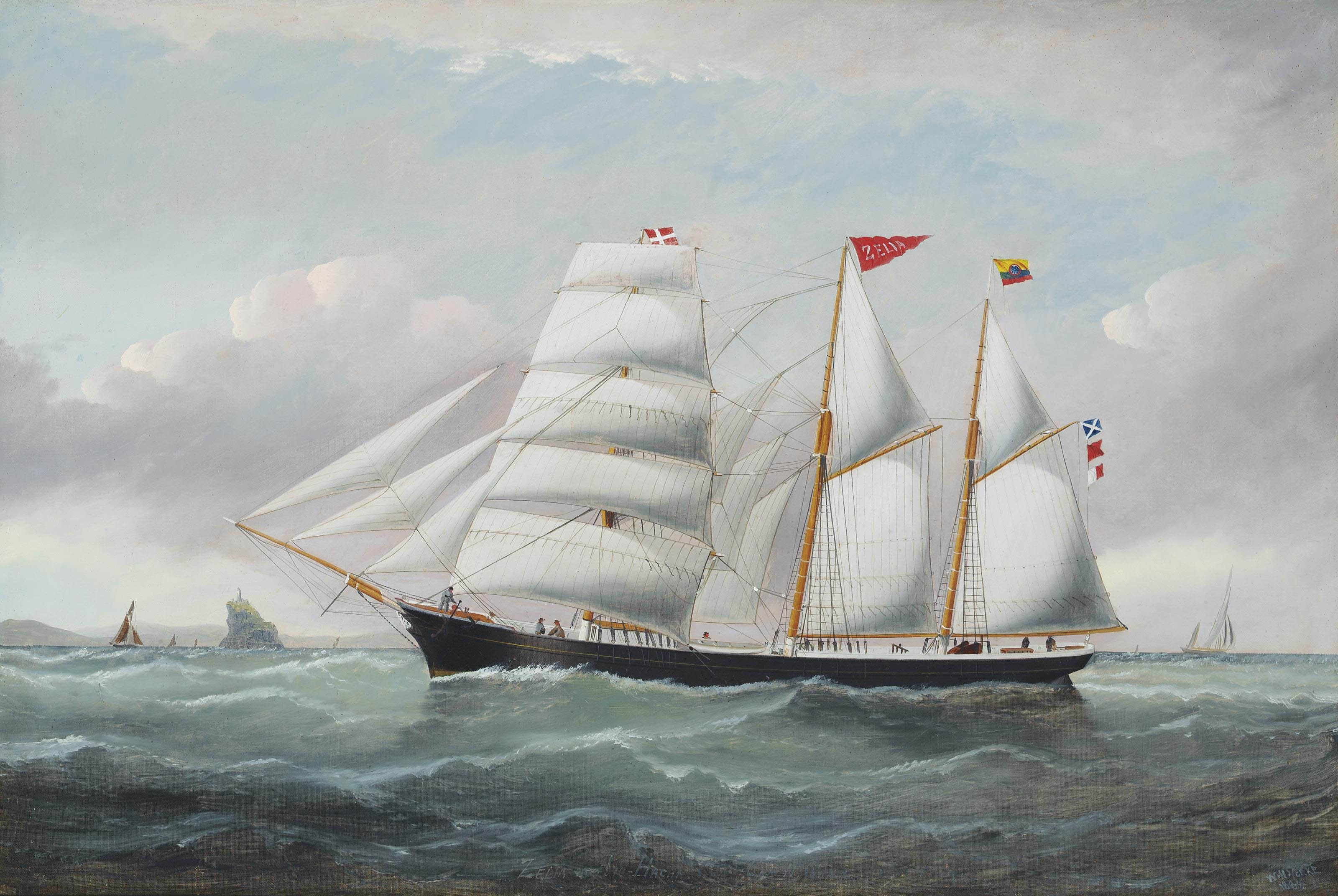 The experts at Christies did not get it totally right when they interpreted the inscription. The Zelia is not really shown off Nordby in Denmark (there are no cliffs in the area) but the skipper, Christian Nielsen Gram (1862-1919) lived in Nordby on the island of Fanø (perhaps the reason for the Danish flag). The Zelia was built by Westacott of Barnstaple in 1862, and according to Lloyd's Register of 1889 (page 750 at ), the ship had been condemmed by 1889.